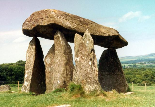 Pentre Ifan. This Megalithic Burial chamber dates back 5500 years. The Capstone which sits 8 feet above the ground weighs around 16 tons.